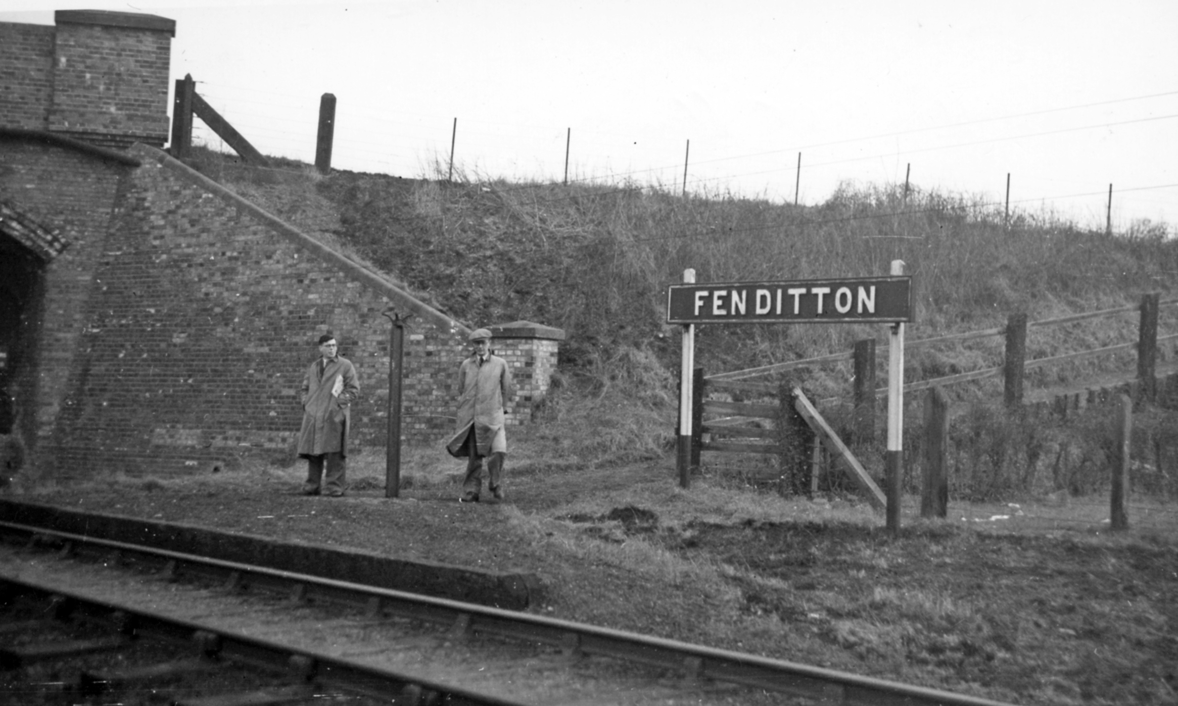 Fen Ditton Halt, 1938View SE, on Cambridge (Barnwell) - Mildenhall branch.